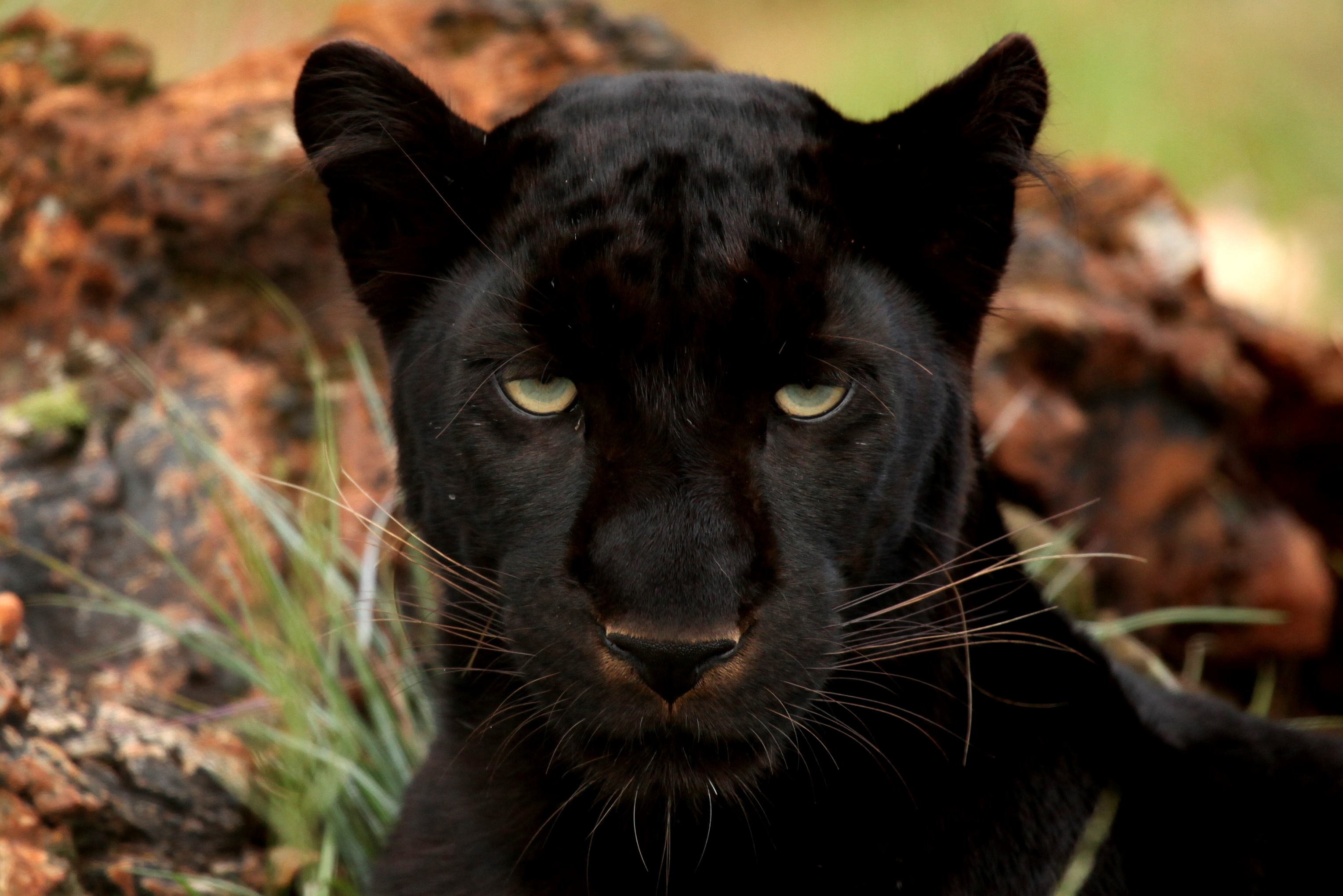 Black Panther. Photo taken at Rhino and Lion Park, Gauteng, South Africa